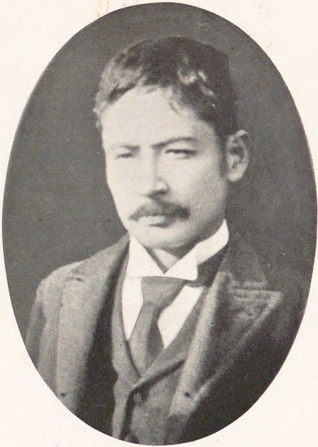 Natsume Soseki as an English teacher at Matsuyama Middle School, Ehime prefecture (March 1896).